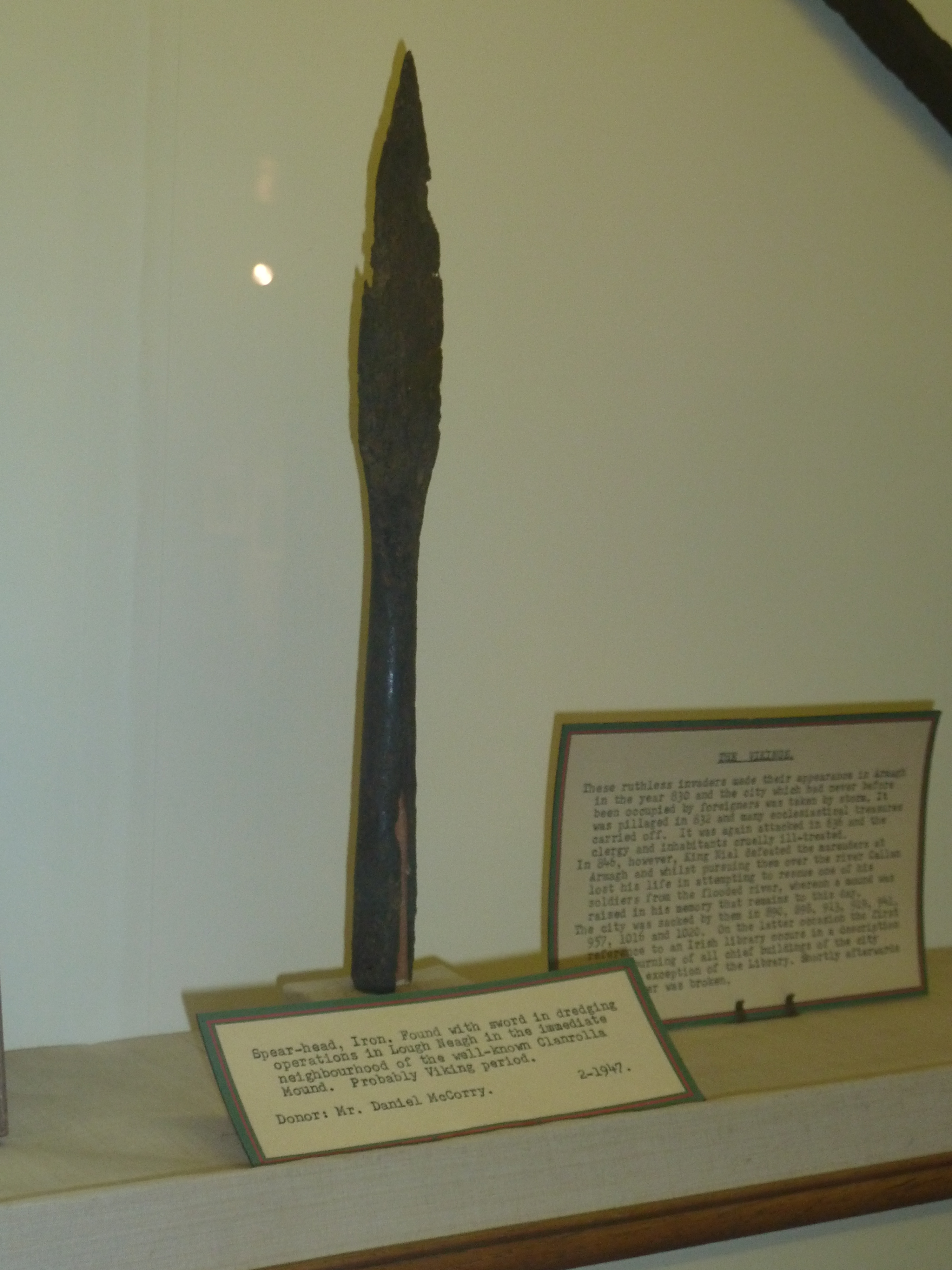 Armagh Museum Viking Age. Iron spear-head